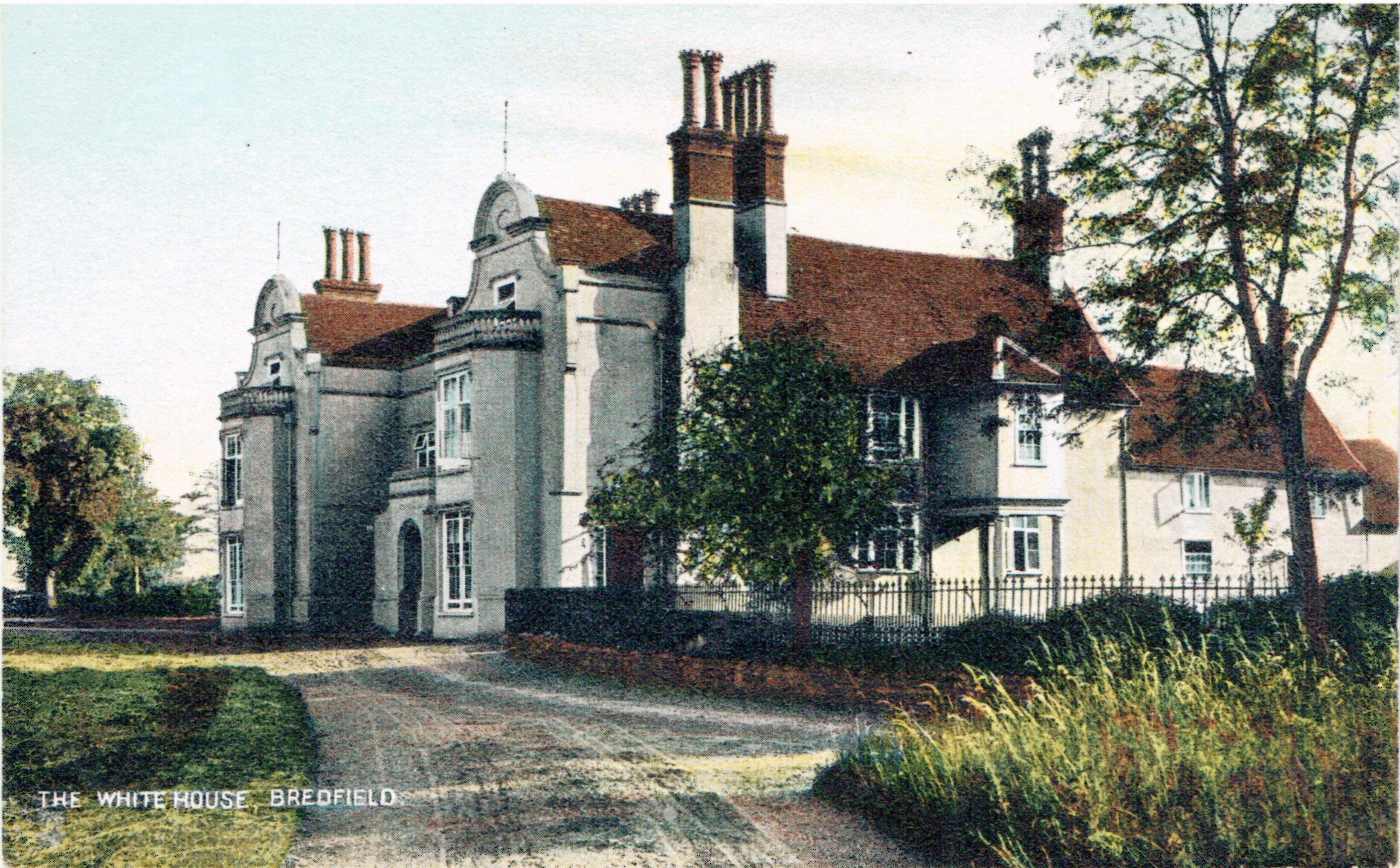 Colourized picture of the White House, Bredfield, Suffolk, England, printed c.1905 ("Christchurch" Pictorial Postcards, "Naturette" Series)